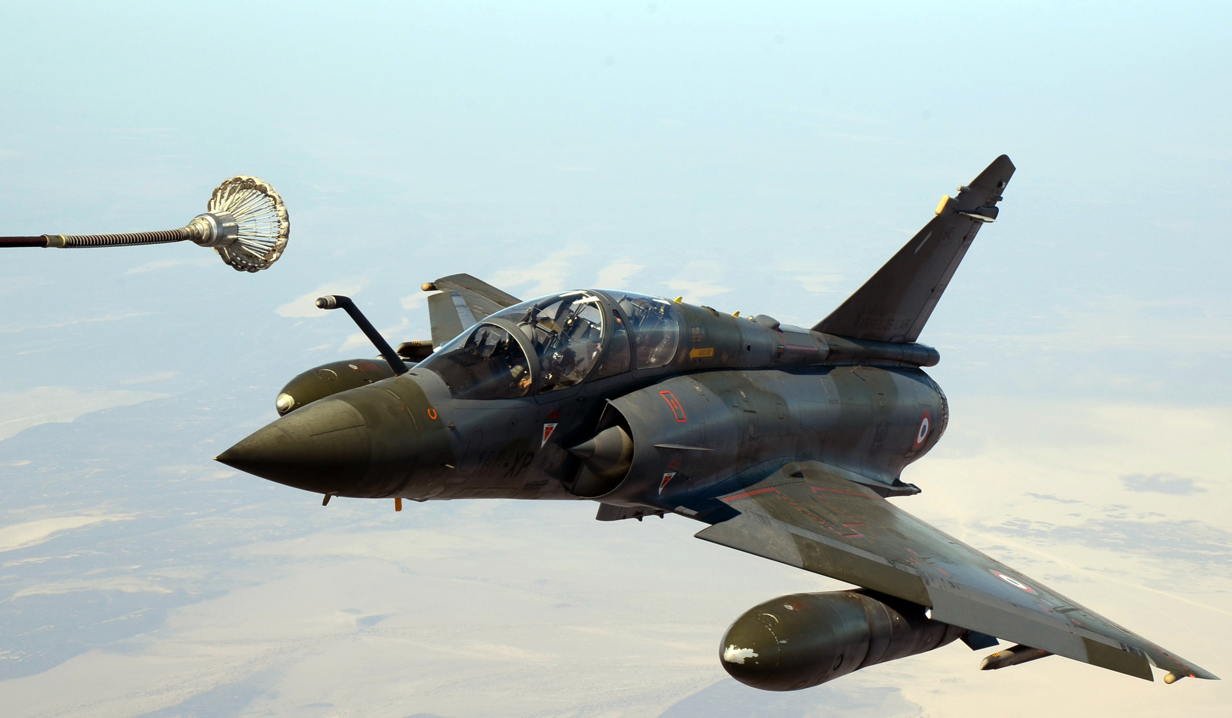 A KC-130J, assigned to the Marine Aerial Refueler Transport Squadron 352, refuels a Dassault Mirage 2000D assigned to French forces as part of a refueling training mission Nov. 22, 2012. Coalition aerial refueling training helps develop French and U.S. forces' interoperability across a variety of critical mission areas and demonstrates the American and French militaries' continued commitment to the standards and values of the NATO Alliance. The 15th Marine Expeditionary Unit is deployed as part of the Peleliu Amphibious Ready Group as a theater reserve and crisis response force in the U.S. 5th Fleet area of responsibility. (U.S. Air Force photo by Staff Sgt. Veronica McMahon)